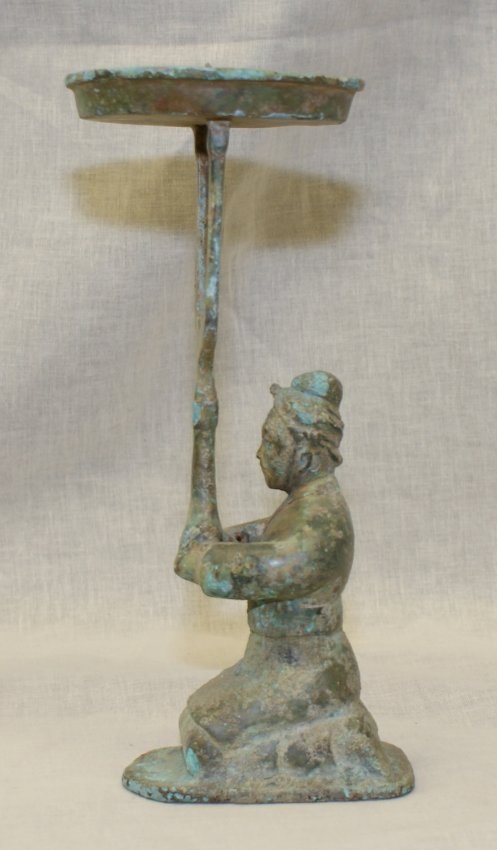 Archaic Bronze Candle Holder. Han Thru Warring States